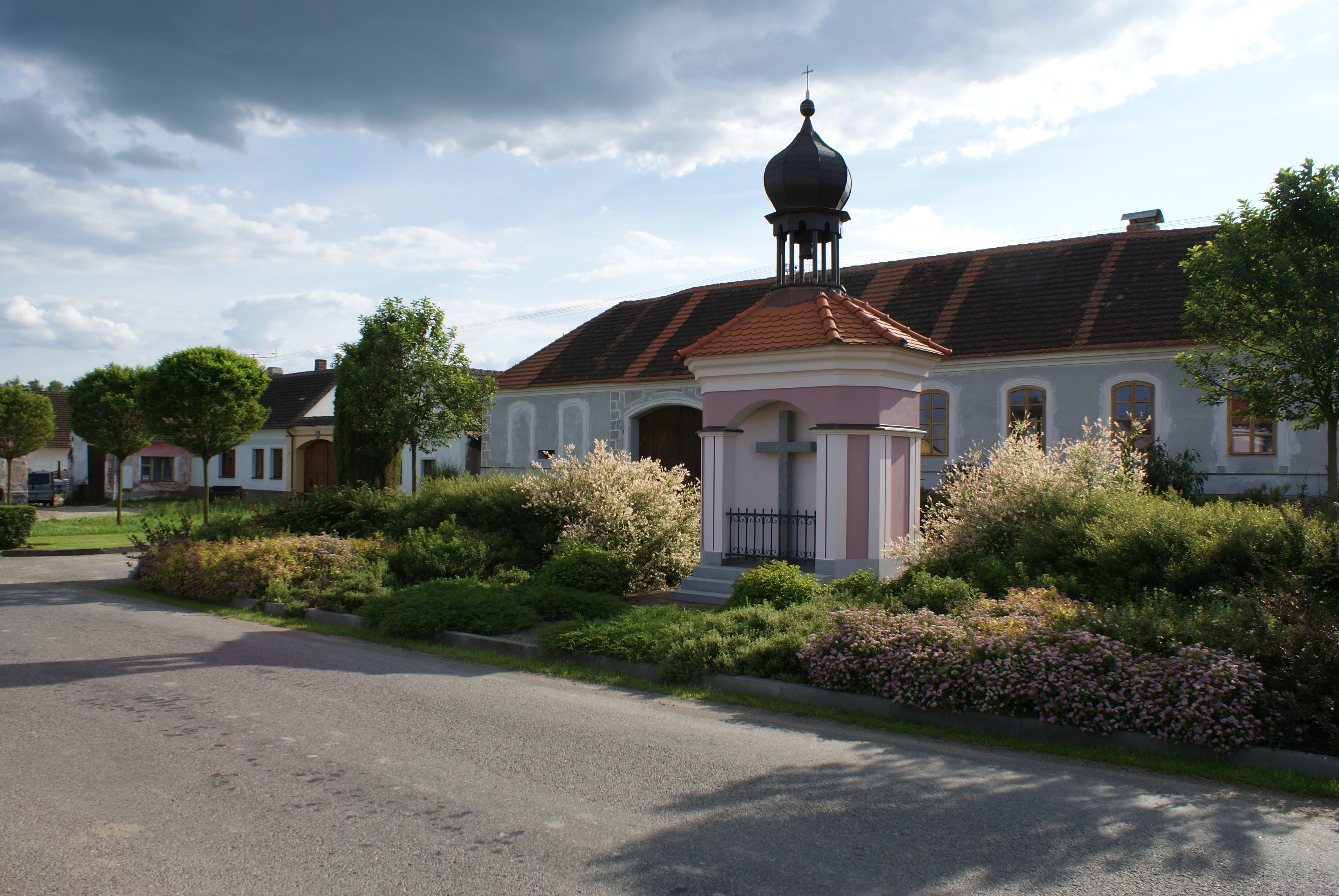 Lidmovice, a village in Strakonice district, Czech Republic, a chapel on the village common. Česky: Lidmovice, okres Strakonice, kaplička na návsi